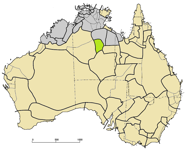 Warumungu (green) among other Pama–Nyungan languages (tan)